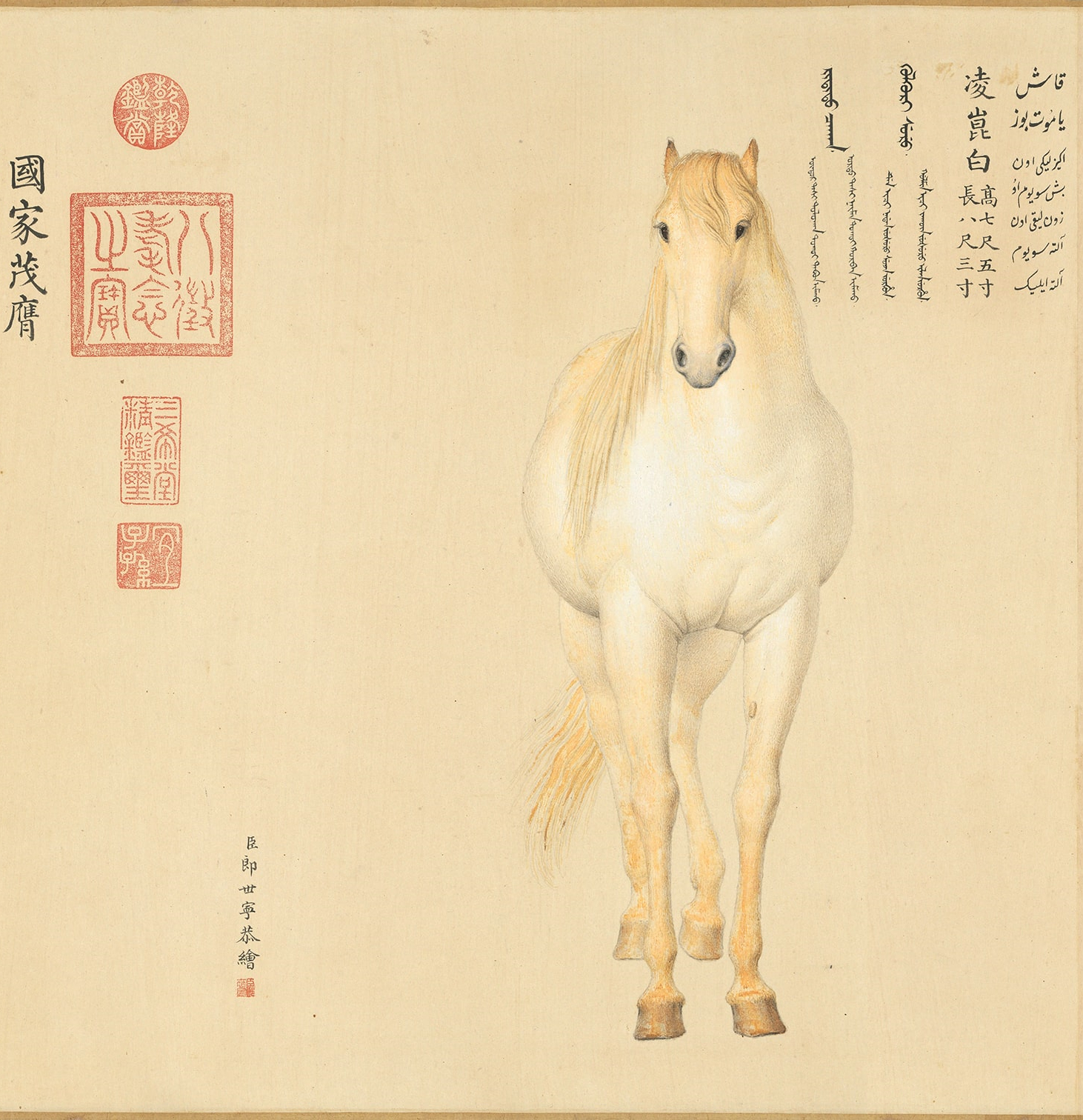 This painting is one of Giuseppe Castiglione's Afghan Four Steeds, features a horse named Lingkunbai (凌昆白, literally Ice White).